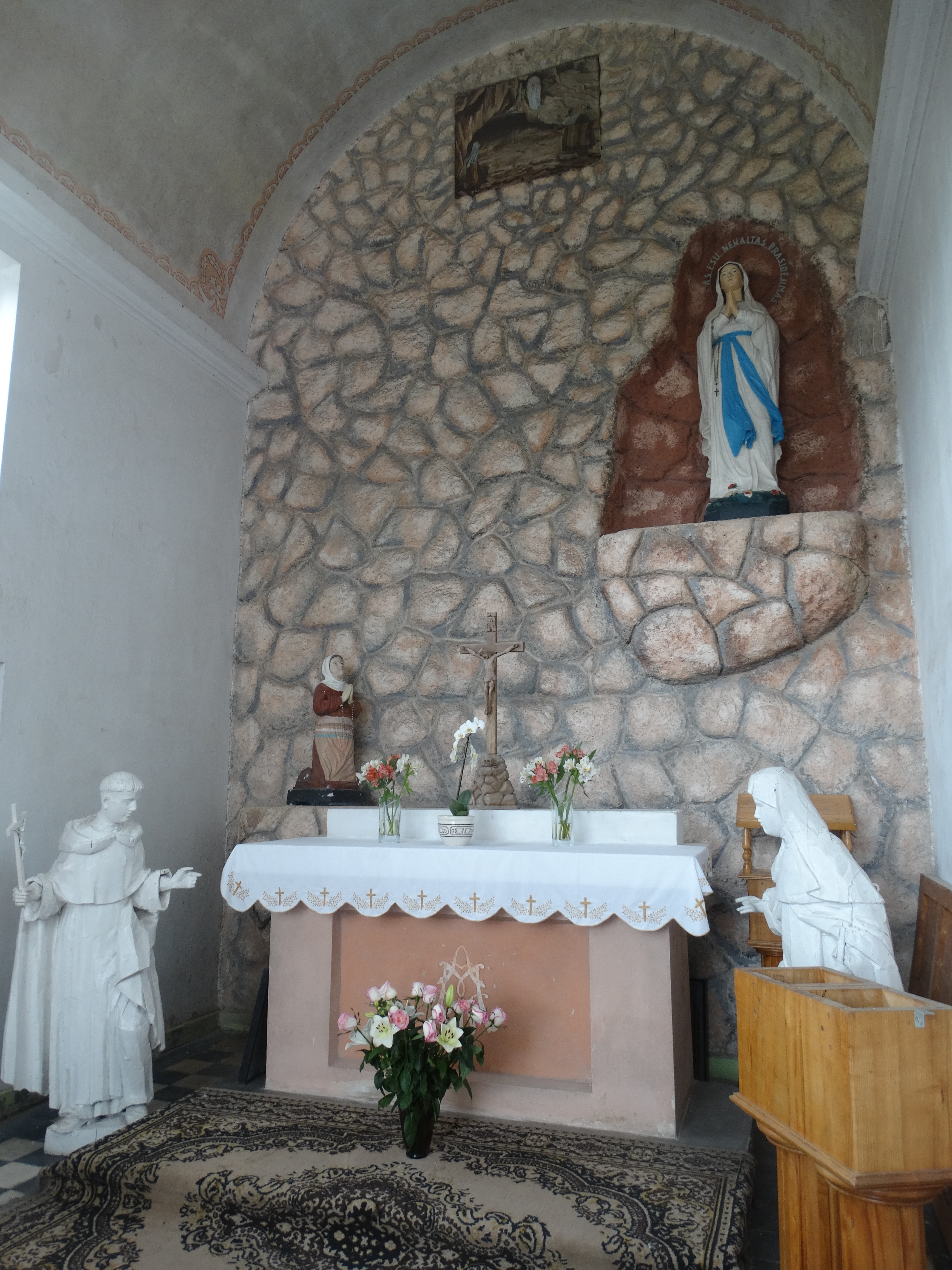 Lourdes chapel, Raseiniai, Lithuania